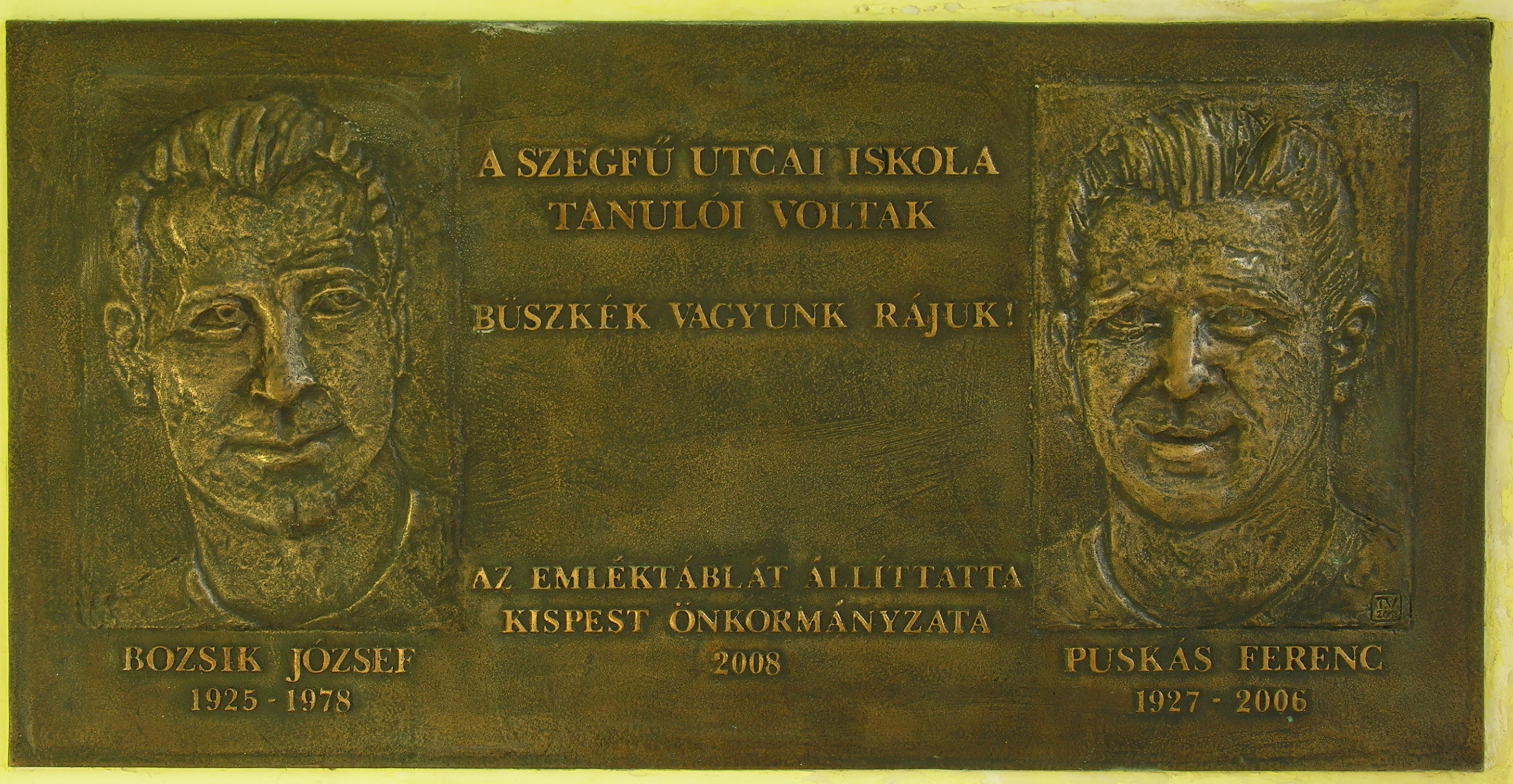 Commemorative plaque of József Bozsik and Ferenc Puskás, Budapest District XIX., Szegfű Street No 10